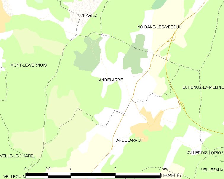 Map of French municipality